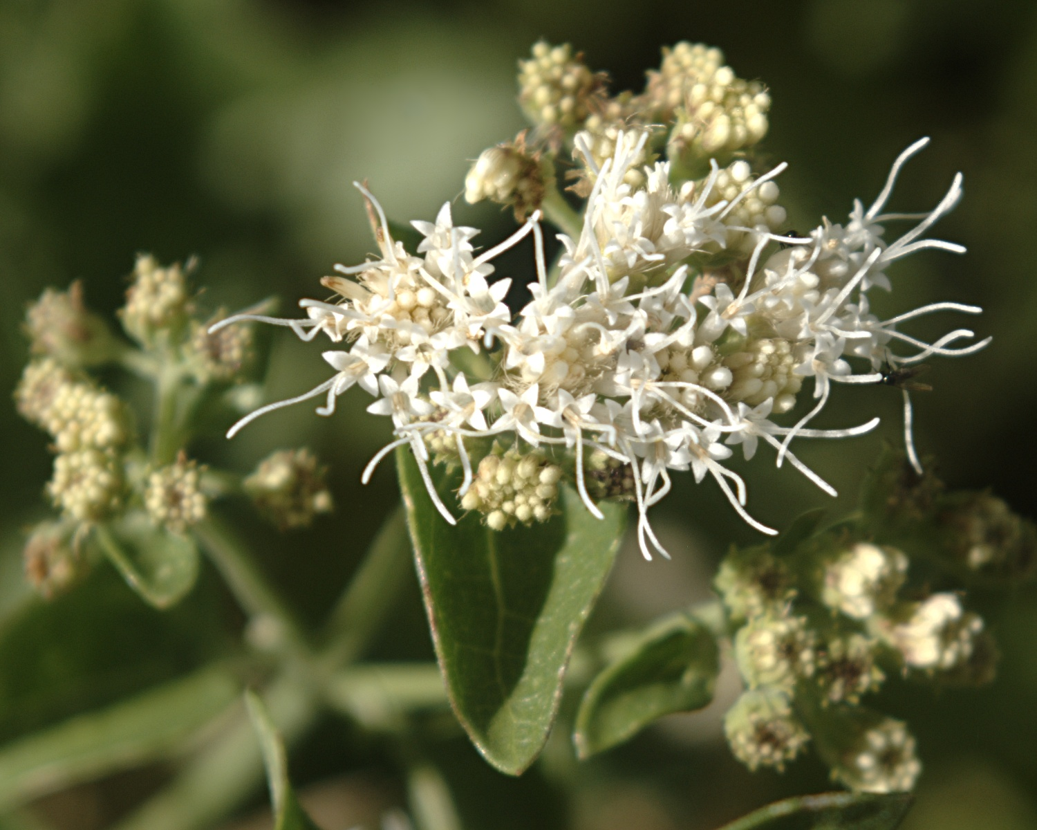 Flowers of Ageratina herbacea, fragrant or Apache snakeroot, Apache Springs Trail, Bandelier National Monument, New Mexico. See File:Ageratina herbacea habitus.jpg for comments on ID.